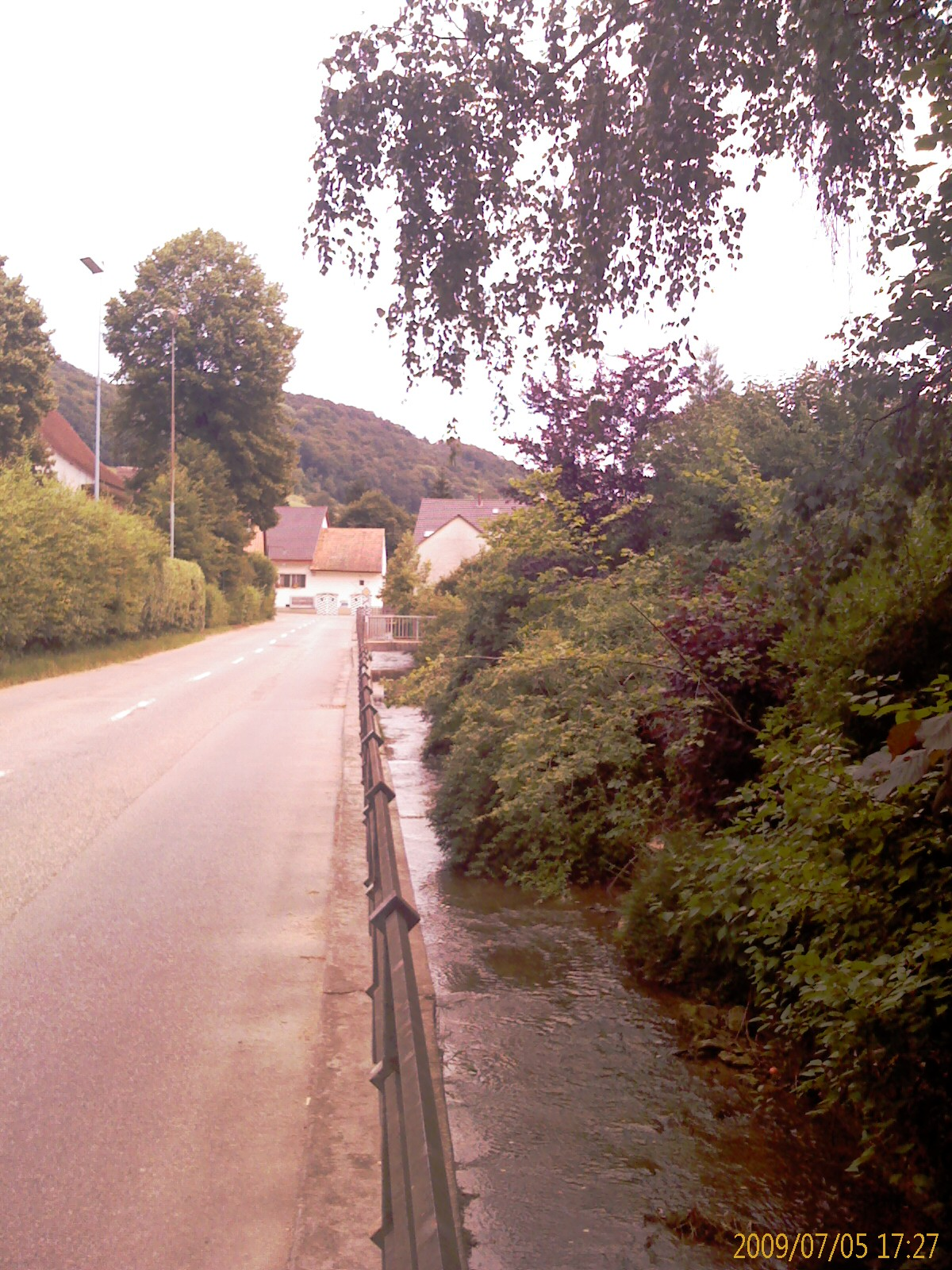 River Ergolz at Rothenfluh, canton of Basel-Country, SwitzerlandEsperanto: Rivero Ergolz en Rothenfluh, Kantono Bazelo Kampara, Svislando